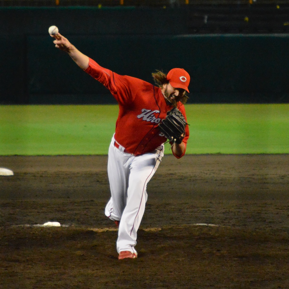 Kam Mickolio, pitcher of the Hiroshima Toyo Carp, at Hanshin Koshien Stadium